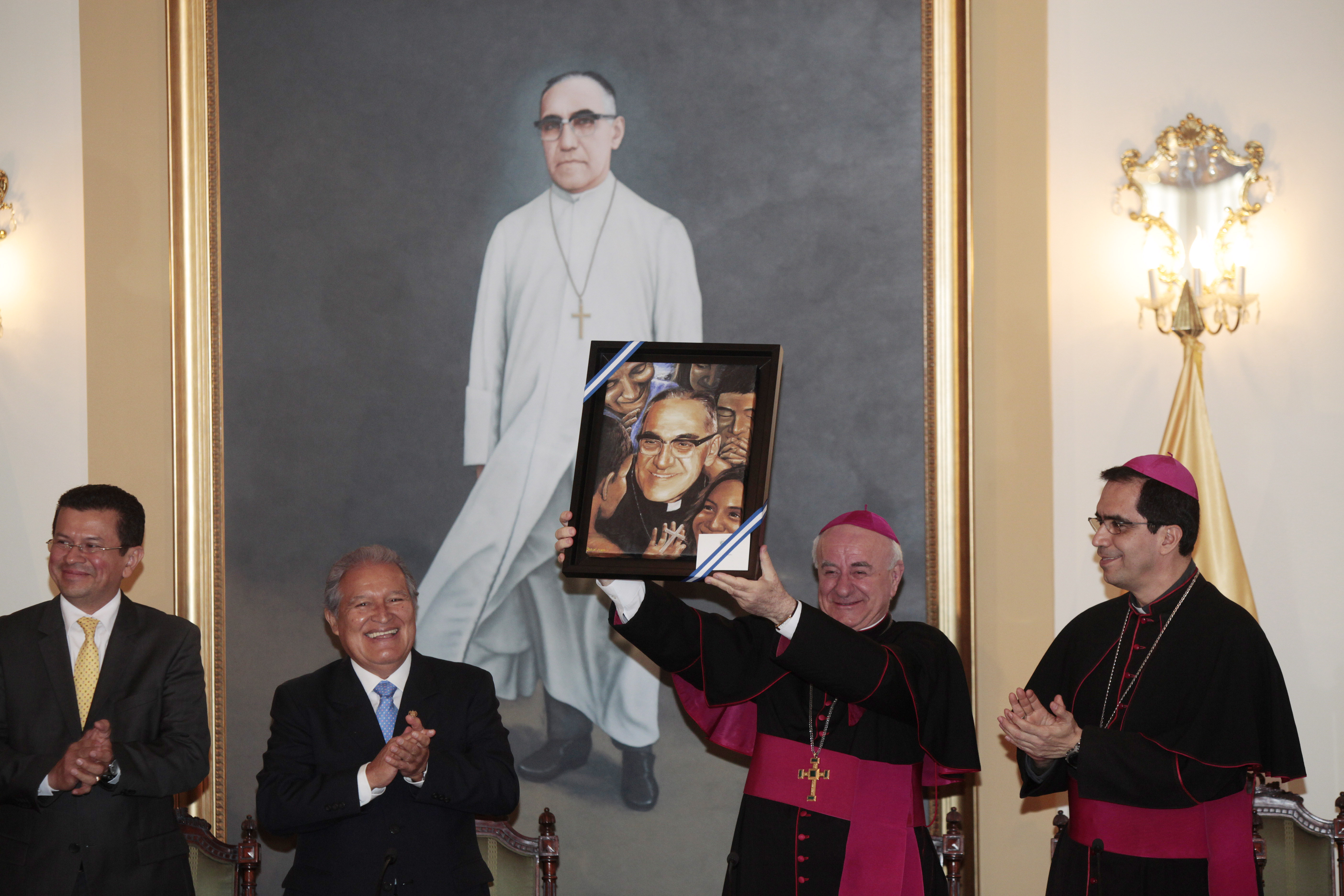 DE IZQ. A DER.: HUGO MARTINEZ ,CANCILLER DE EL SALVADOR ; SALVADOR SANCHEZ CEREN , PRESIDENTE DE EL SALVADOR ;MONSEÑOR VINCENZO PAGLIA Y MONSEÑOR JOSE LUIS ESCOBAR ALAS , DURANTE LA CONFERENCIA DE PRENSA.